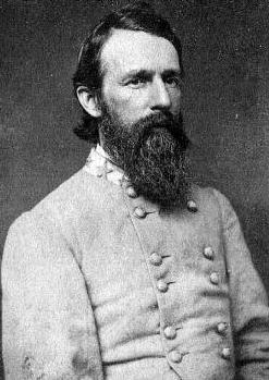 Photo of James Jay Archer (1817-1864)